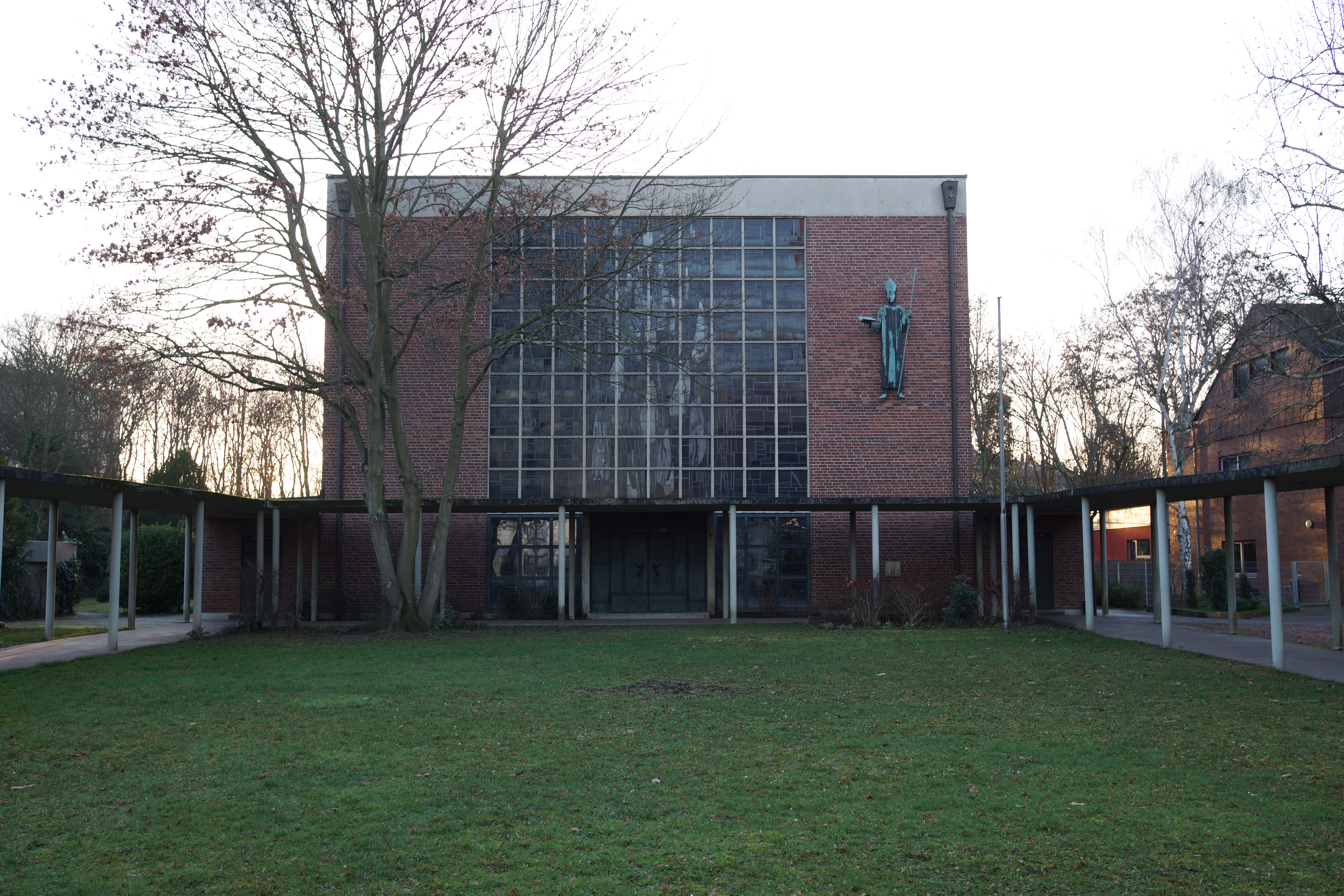 St Rabanus Maurus church, Mainz